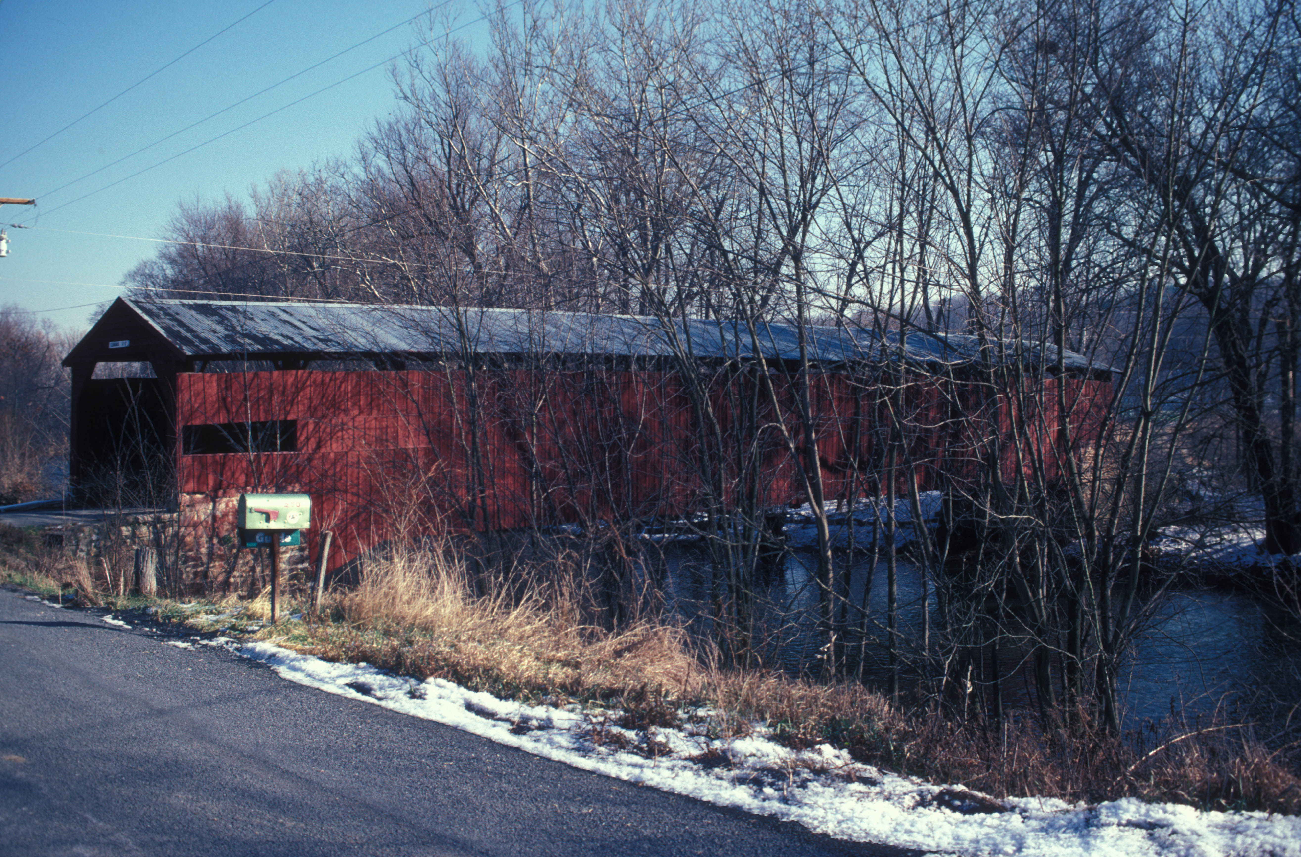 RAMP COVERED BRIDGE OVER CONODOQUINET CREEK; 1882, 140’ BURR